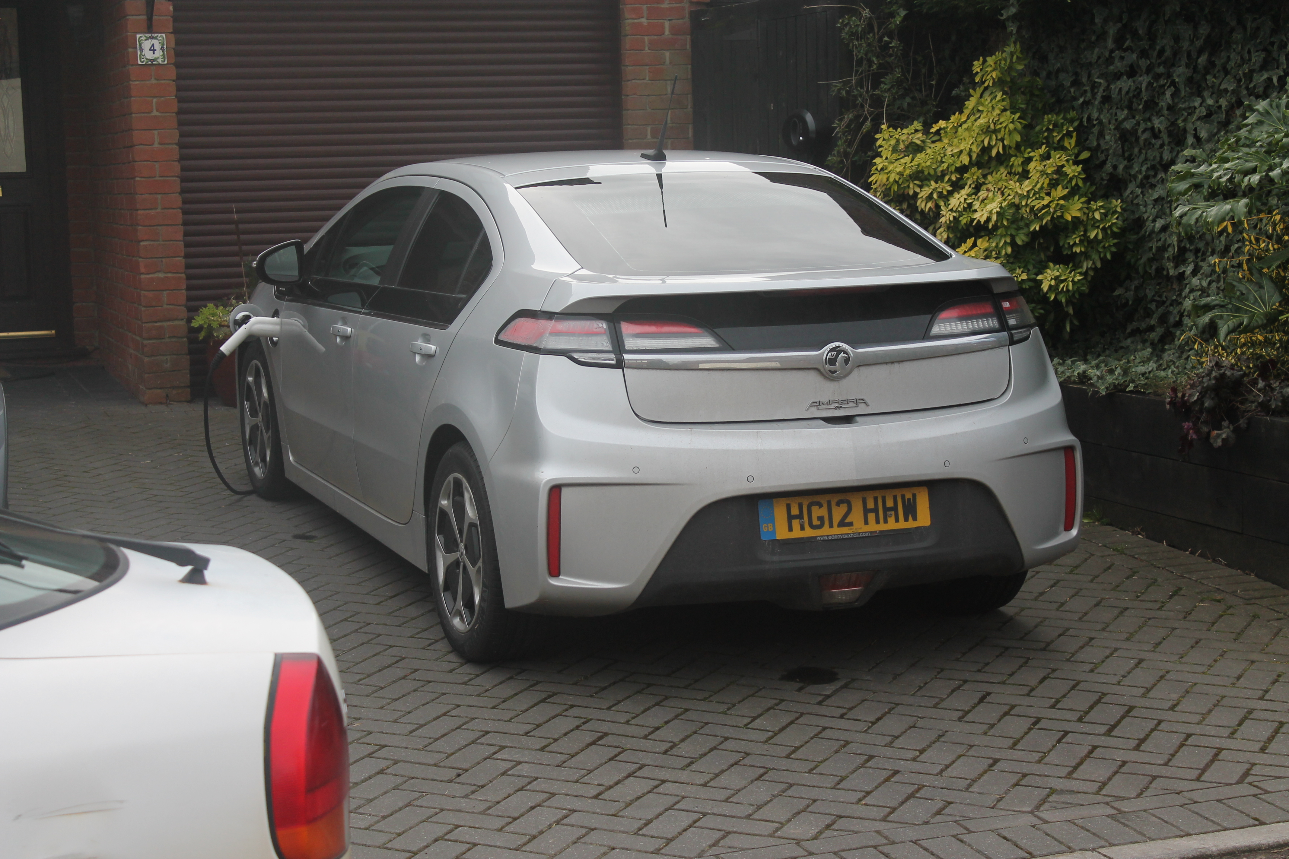 I had no idea what this was at first- it's a very rare sighting indeed to see an electric car in my area- they have very little popularity here in the countryside. This is the first of these Amperas I've seen. They're basically a rebadged Chevrolet Volt. I think they're brilliant looking cars- very futuristic. You can see this one in action being topped up by its electric fuel pump outside the owner's house. I can see why they're quite rare, as they carry the hefty price tag of £37,000! The vehicle details for HG12 HHW are: Date of Liability 01 05 2014 Date of First Registration 30 05 2012 Year of Manufacture 2012 Cylinder Capacity (cc) 1398cc CO₂ Emissions 27 g/km Fuel Type HYBRID ELECTRIC Export Marker N Vehicle Status Licence Not Due Vehicle Colour SILVER Vehicle Type Approval M1